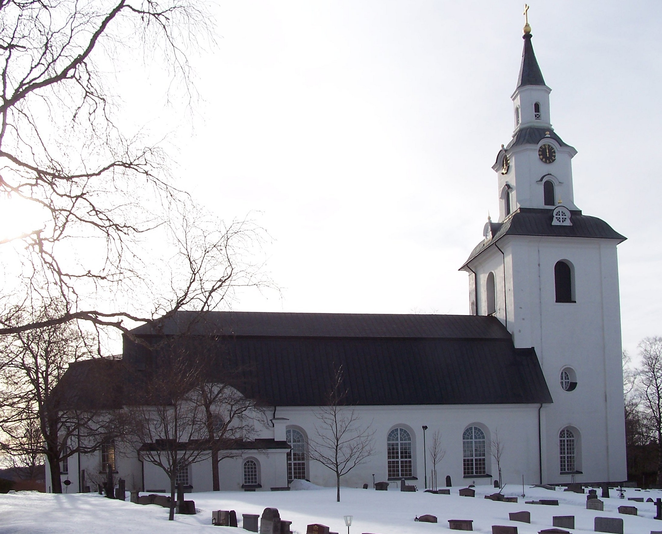 Säbrå church west of Härnösand, Sweden